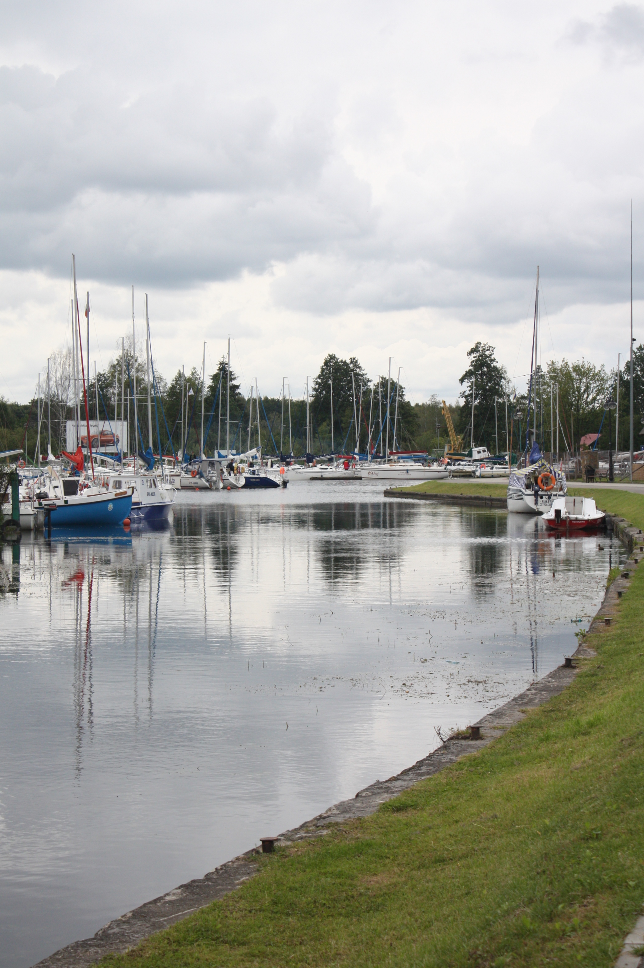 This photo of Warmian-Masurian Voivodeship was taken during Wikiexpedition 2012 set up by Wikimedia Polska Association. You can see all photographs in category Wikiekspedycja 2012. The making of this document was supported by Wikimedia Polska.